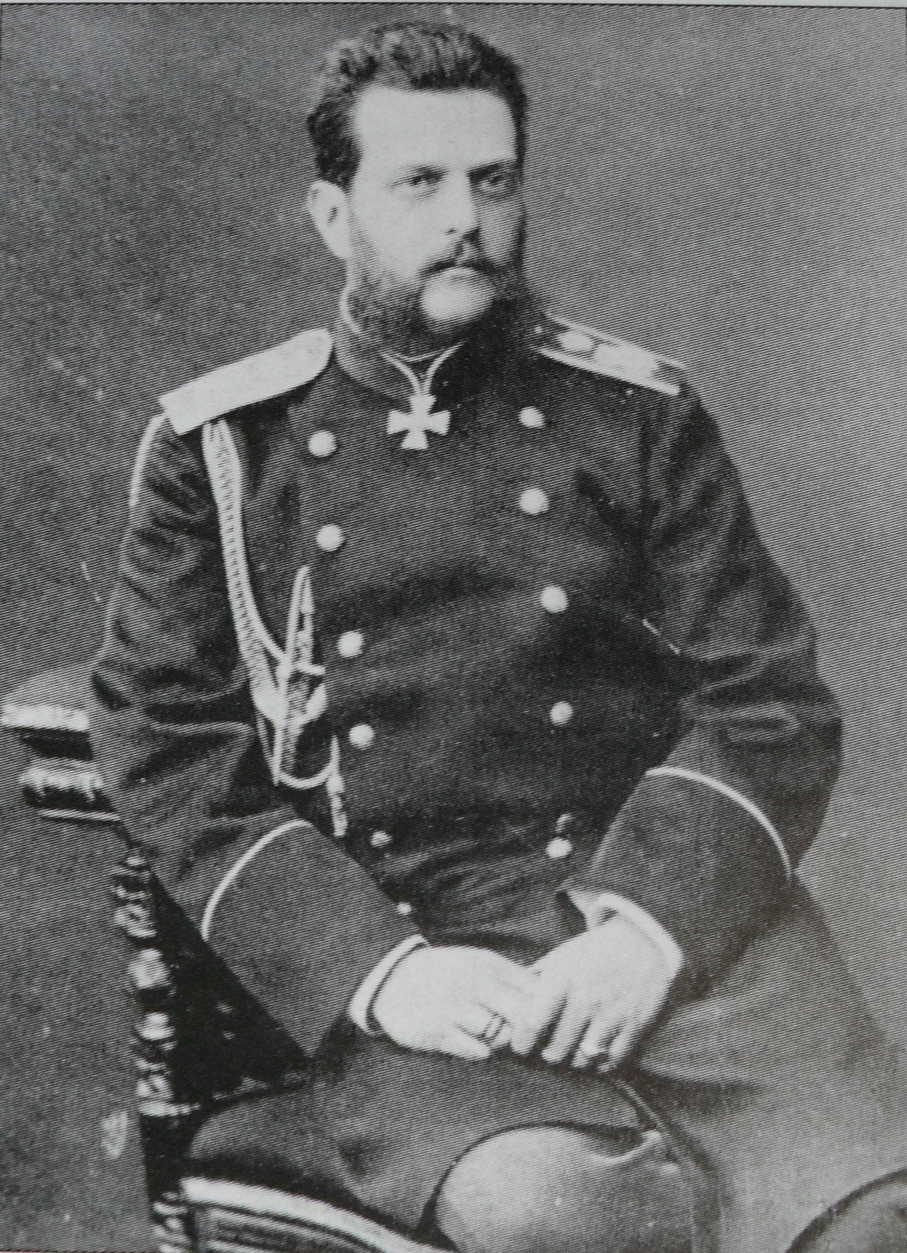 Grand Duke Vladimir Alexandrovich of Russia